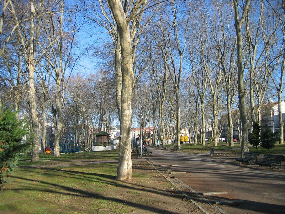 Corujeira garden - Porto - Portugal